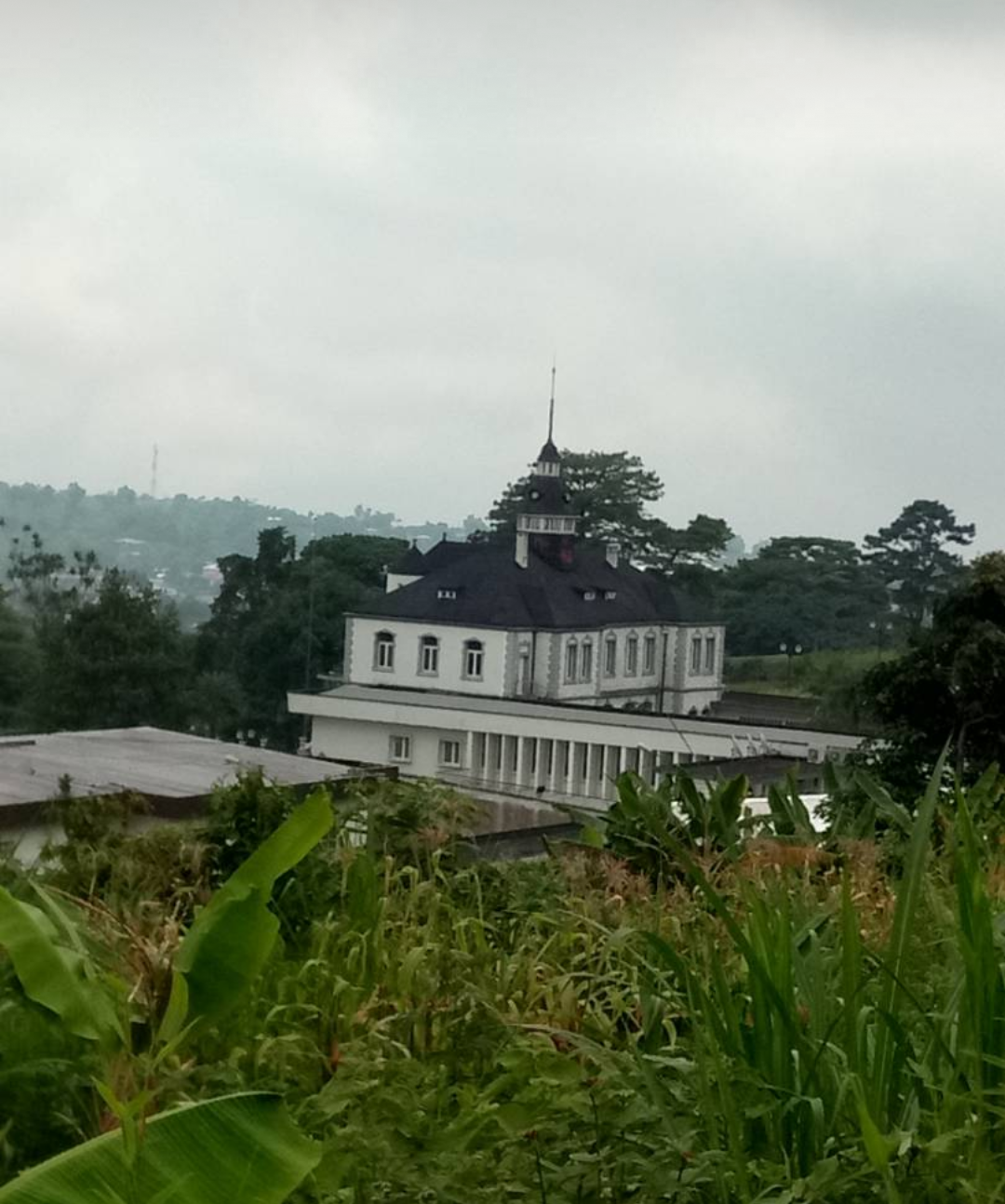 Side view of the Prime Minster's lodge from the water tank at mount Cameroon, located in Buea in the South West Region of Cameroon